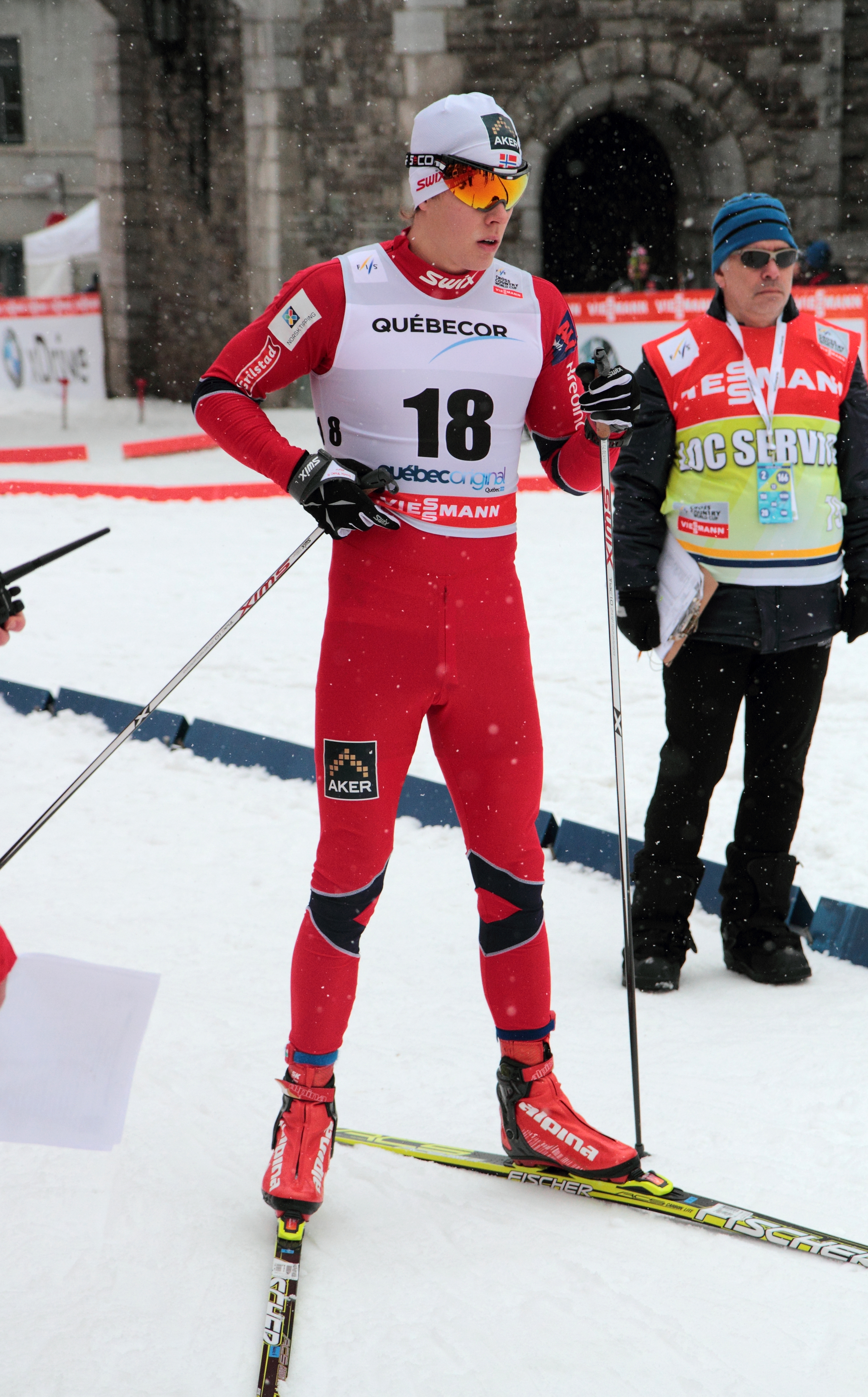 Anders Gløersen, FIS Cross-Country World Cup 2012, Quebec, Canada.